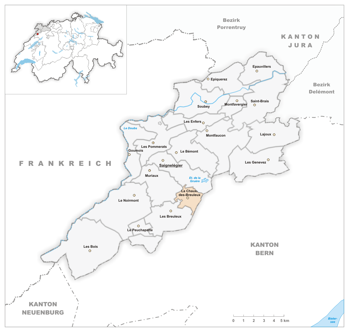 Municipality La Chaux-des-Breuleux